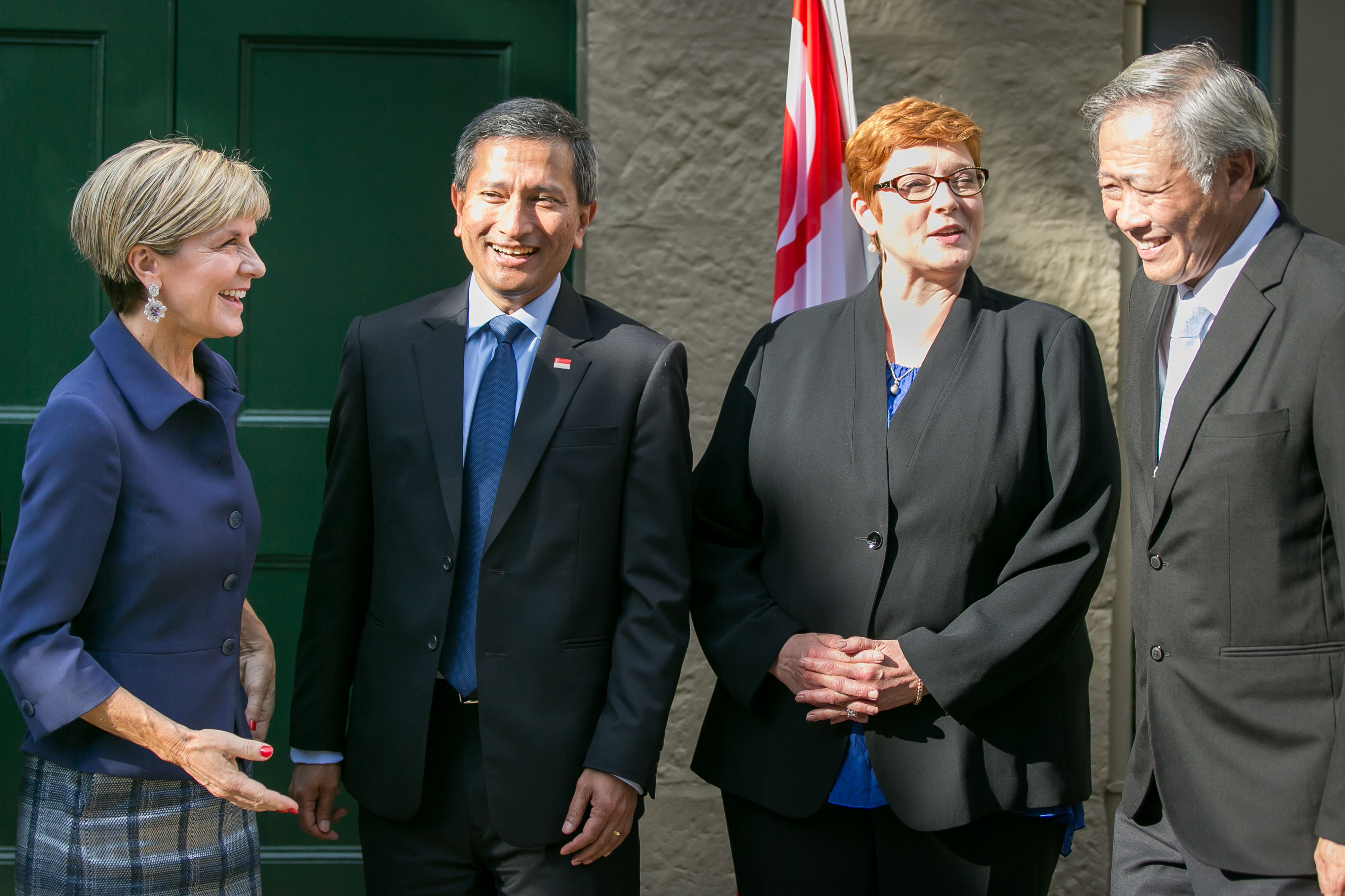 Foreign Minister Julie Bishop and Defence Minister Marise Payne welcome their Singaporean counterparts to Kirribilli House, Sydney, ahead of the ninth Singapore-Australia Joint Ministerial Committee meeting, 18 March 2016.